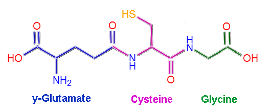 Glutathione structure